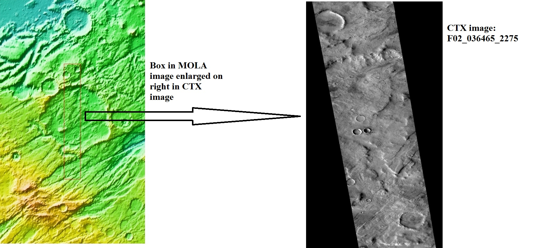 Barabashov Crater, as seen in MOLA image and CTX image